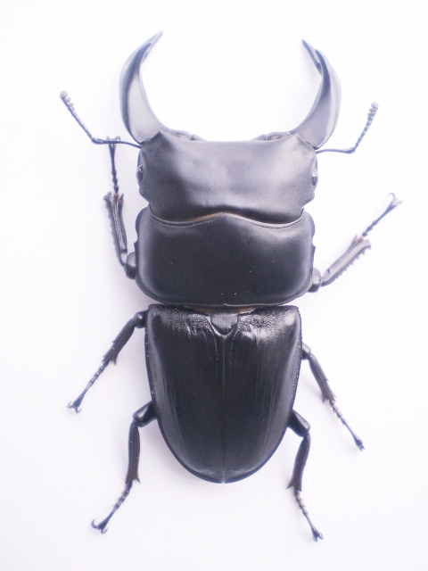 dorcus hopei hopei